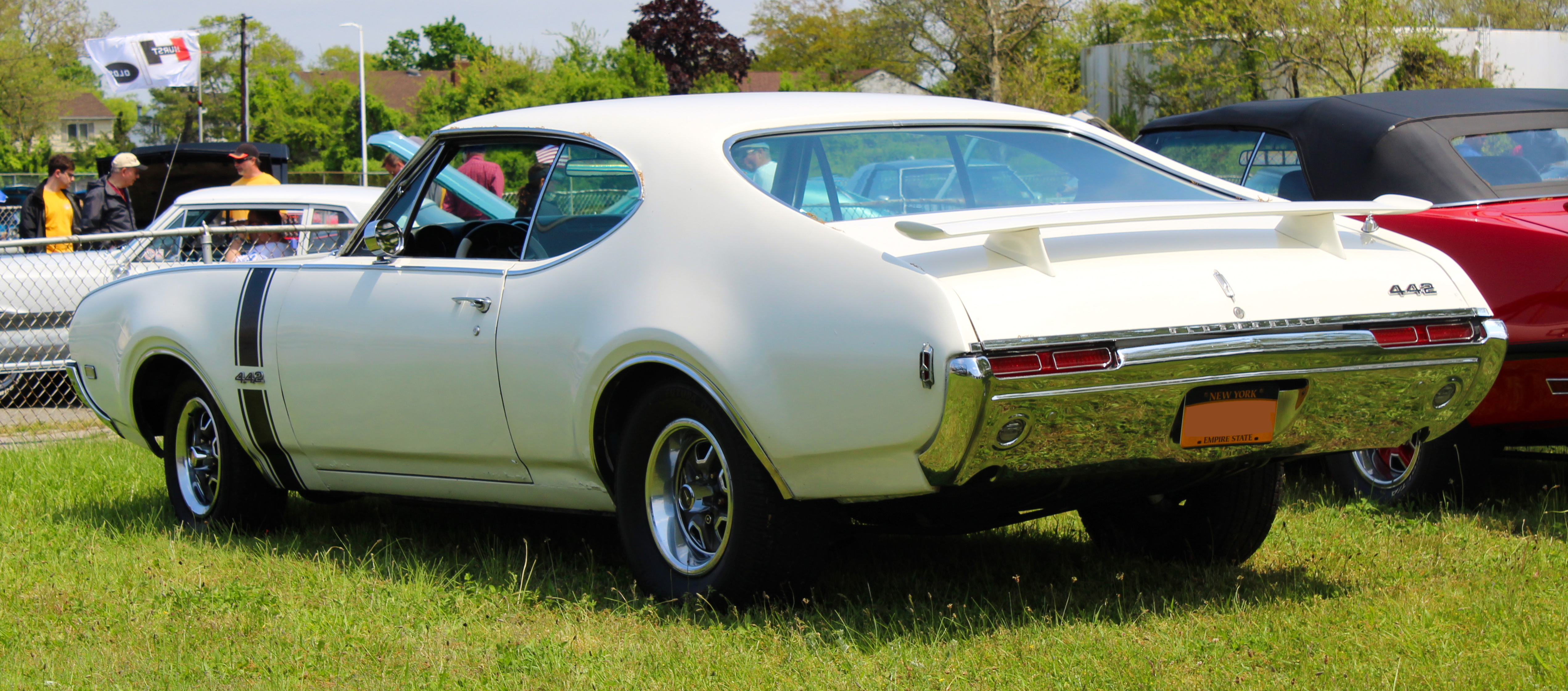 A 1968 Oldsmobile 442 photographed during at a classic car show, in Merrick, New York, USA